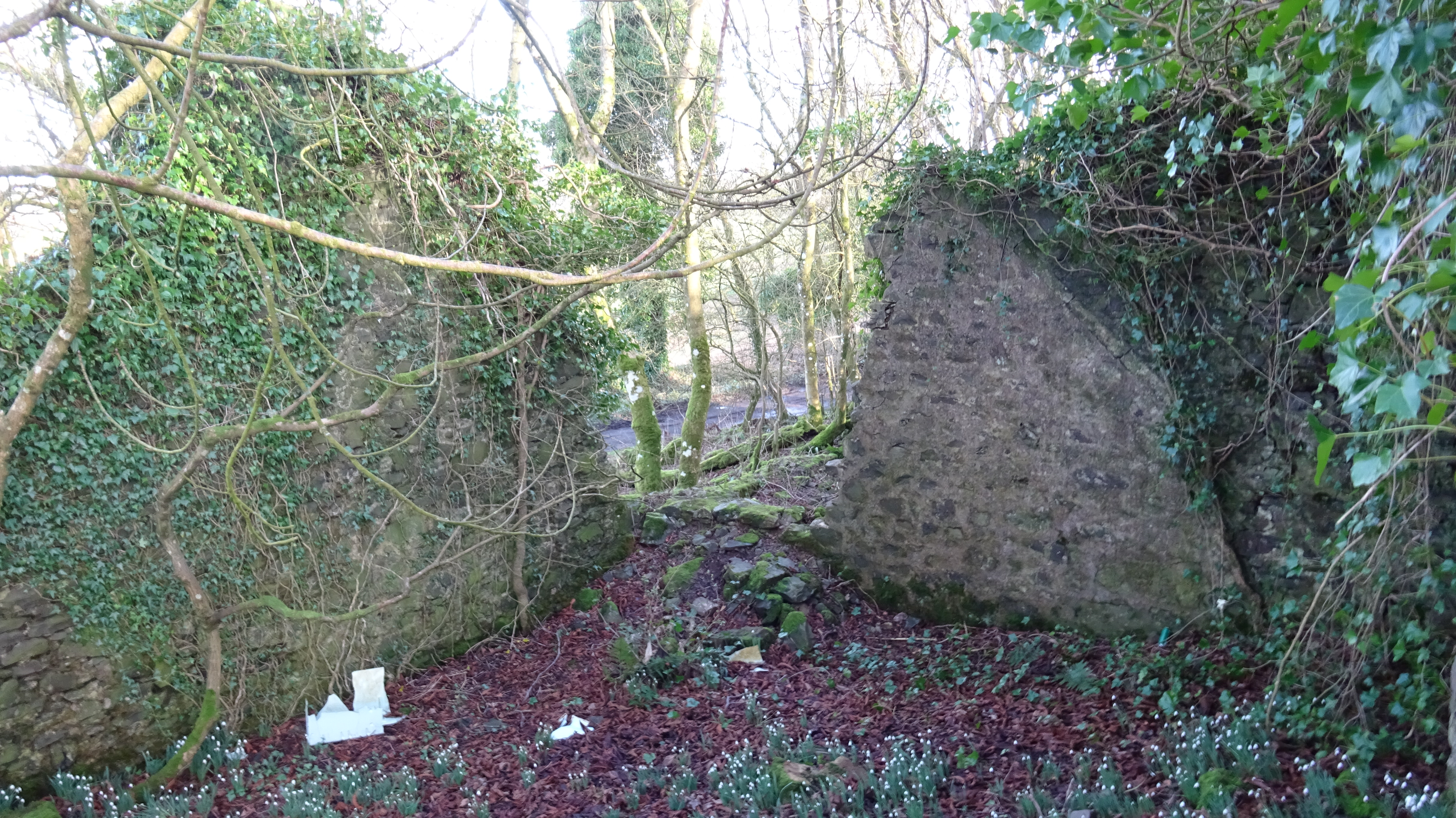 The old feed store walls, Templehouse Farm, Dunlop, East Ayrshire. Ruins. Home to the Gemmell family for around 500 years.